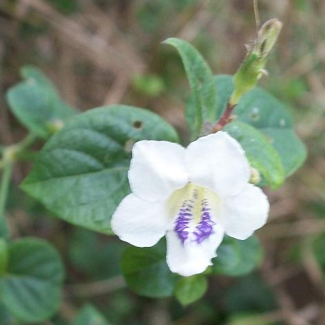 Asystasia gangetica from the Pipeline Coastal Park, South Africa.